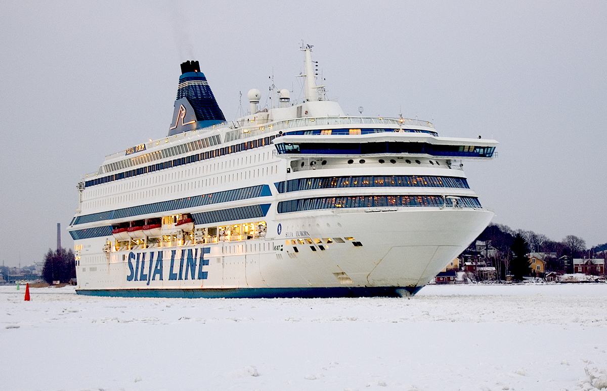 Turku–Stockholm ferry MS Silja Europa